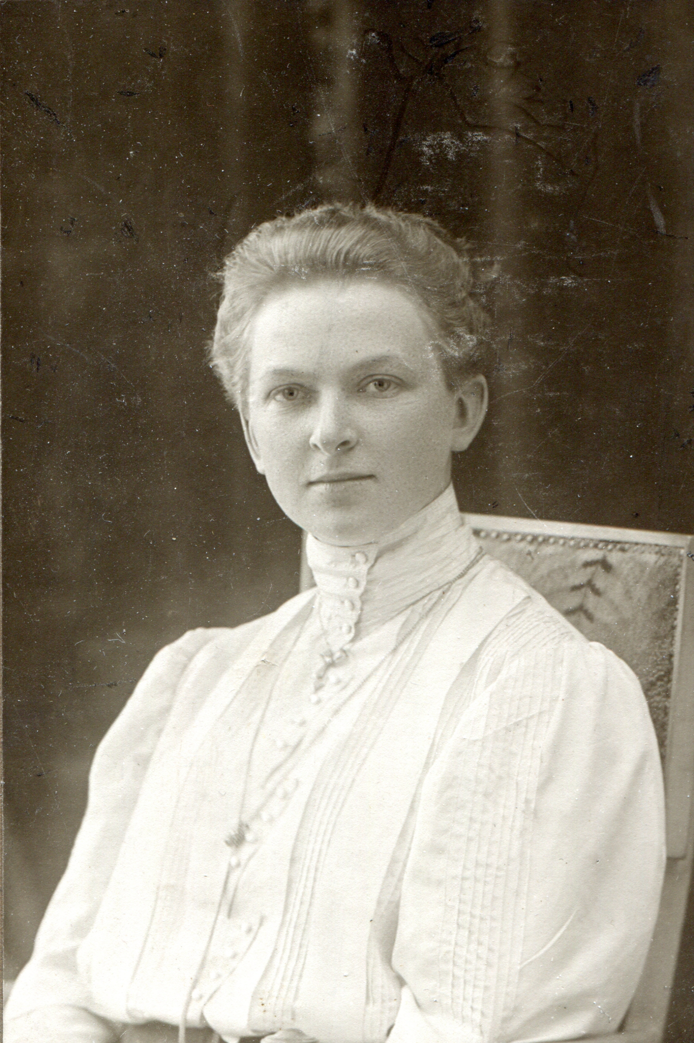 Nalailya Alrksandrovna Stuzer, nee Fidler wife of Russian microbiologist Mikhail Ivanovich Stuzer